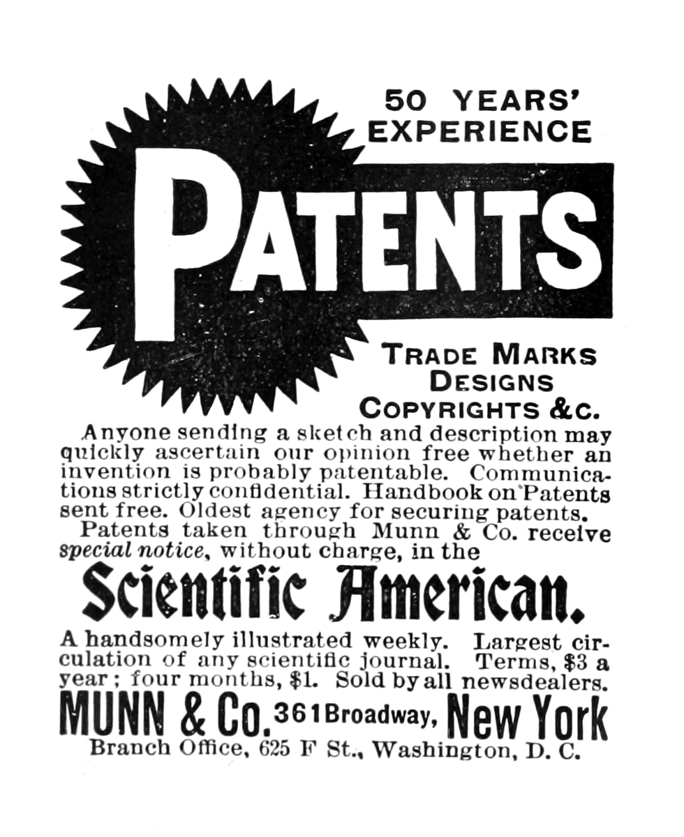 Advertisement for Munn & Company, appearing in Forestry and Irrigation magazine